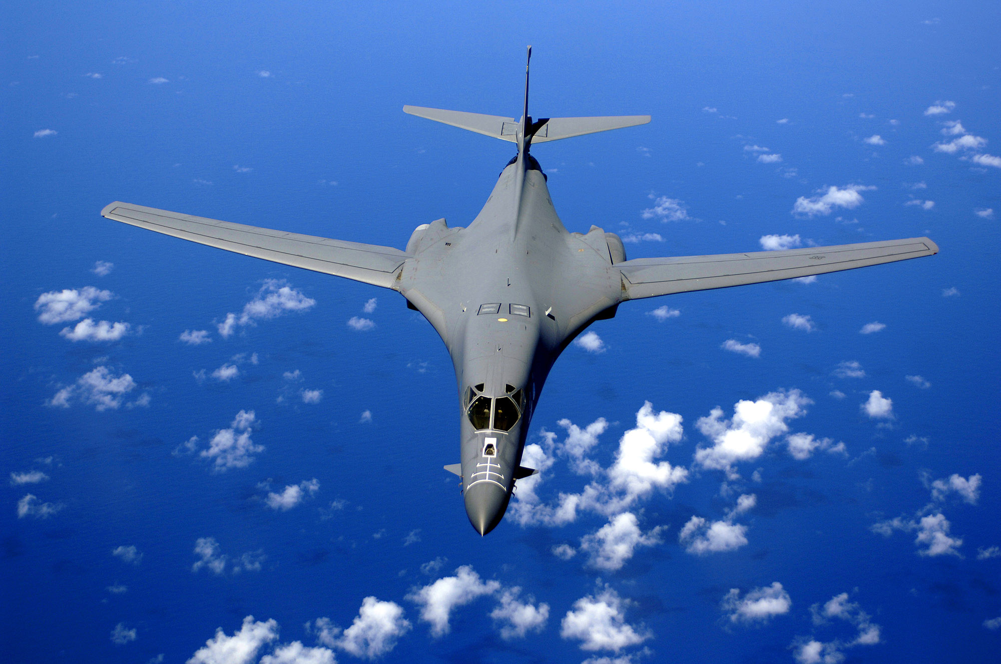 Soaring OVER THE PACIFIC OCEAN -- A B-1B Lancer drops back after air refueling training Sept. 30. The B-1B is deployed to Andersen Air Force Base, Guam, as part of the Pacific Command's continuous bomber presence in the Asia-Pacific region, enhancing regional security and the United States commitment to the Western Pacific. The B-1 is from the 28th Bomb Wing, Ellsworth AFB, South Dakota.[1]